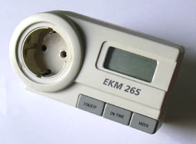 Handheld meter connected between 220VAC wall socket and appliance to measure power consumption.